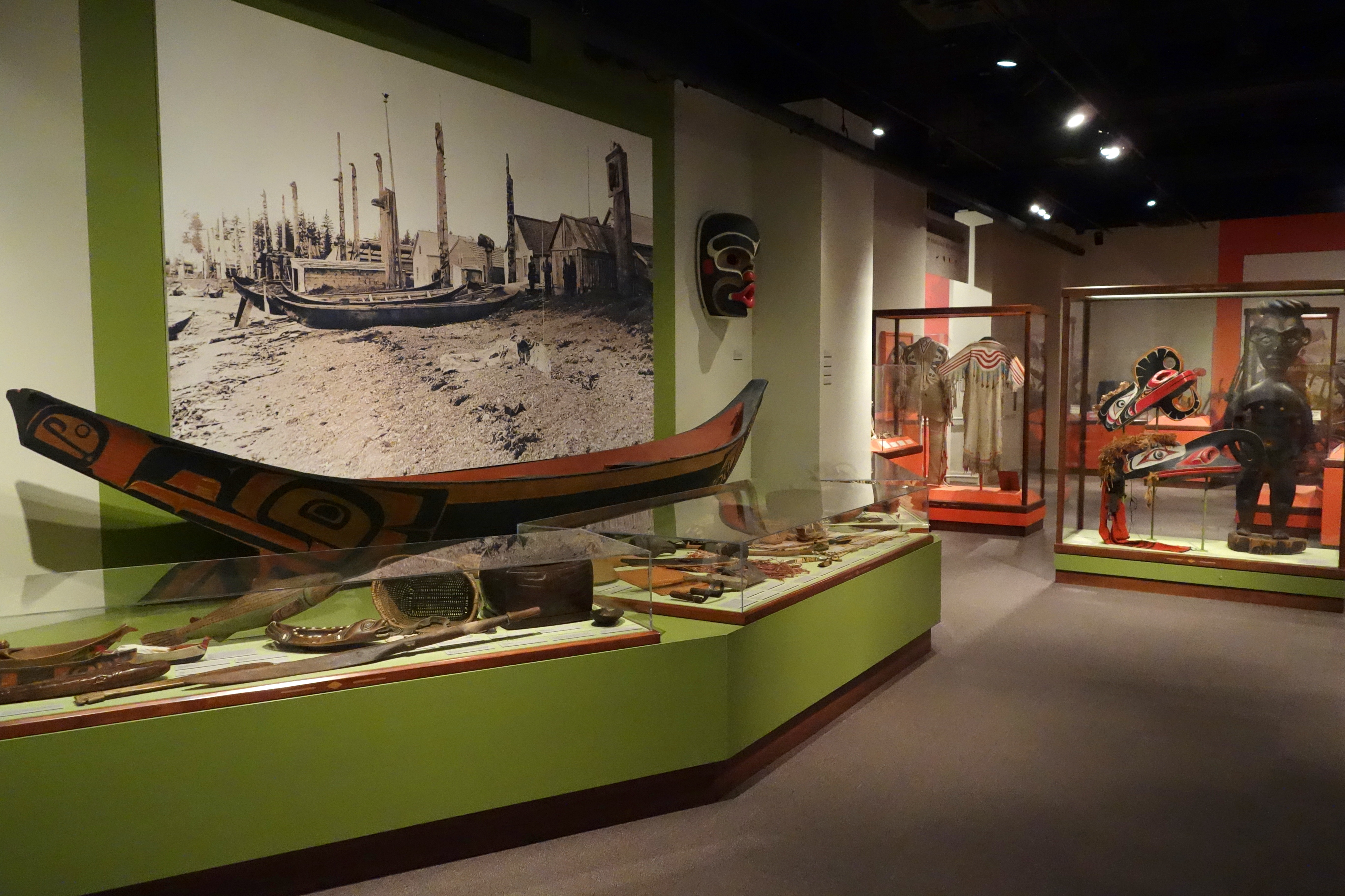 Exhibit in the Glenbow Museum, 130 9th Ave S.E., Calgary, Alberta, Canada. This work is old enough so that it is in the public domain.